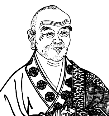 Buddhacinga, also known as Fotudeng (佛圖澄), a monk from Kucha (in what is now Xinjiang Uyghur) who came to China proper, propagating the teachings of Buddhism and Buddhist meditation. Wood block print illustration.